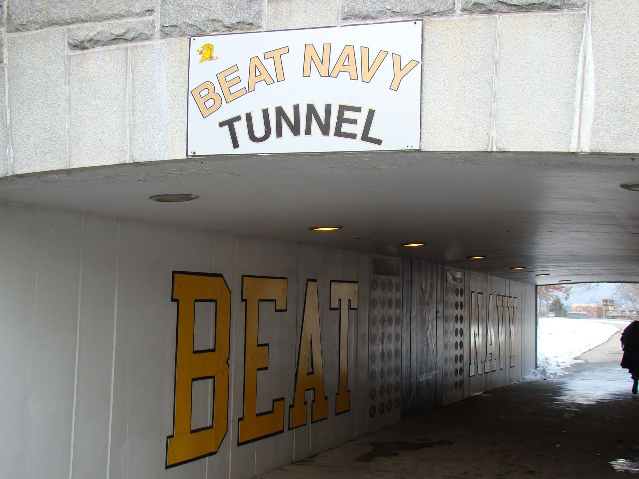 The "Beat Navy Tunnel" that travels under Washington Road, United States Military Academy, West Point, NY